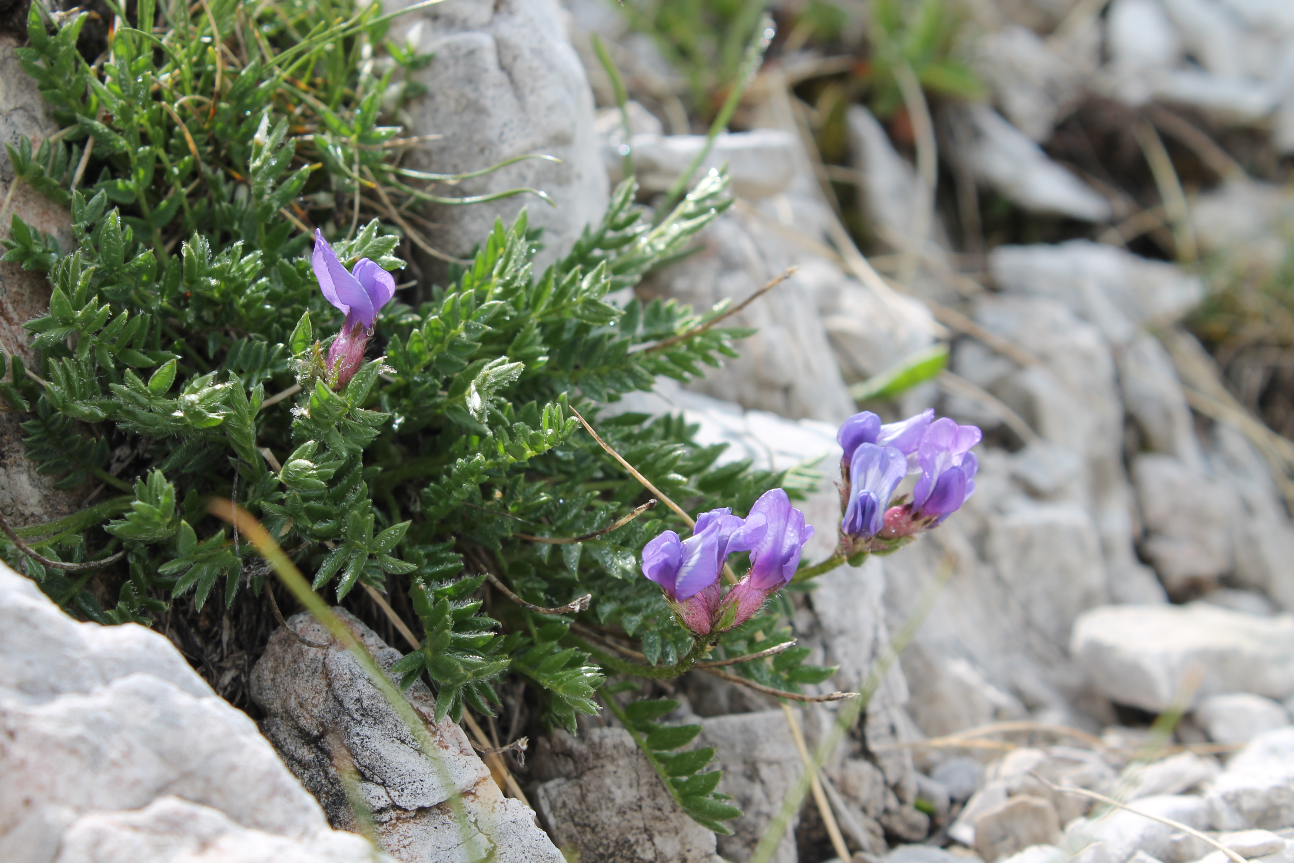 Family : Fabaceae , endemic of mountain Prenj (central Bosna & Herzegovina)